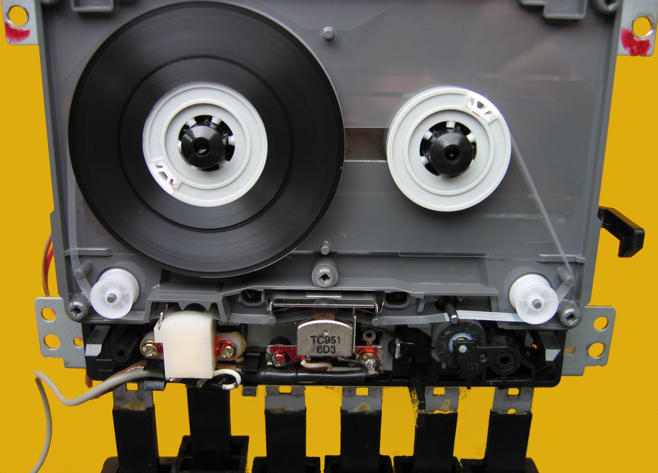 Compact Cassette Tape Drive mechanism in play mode